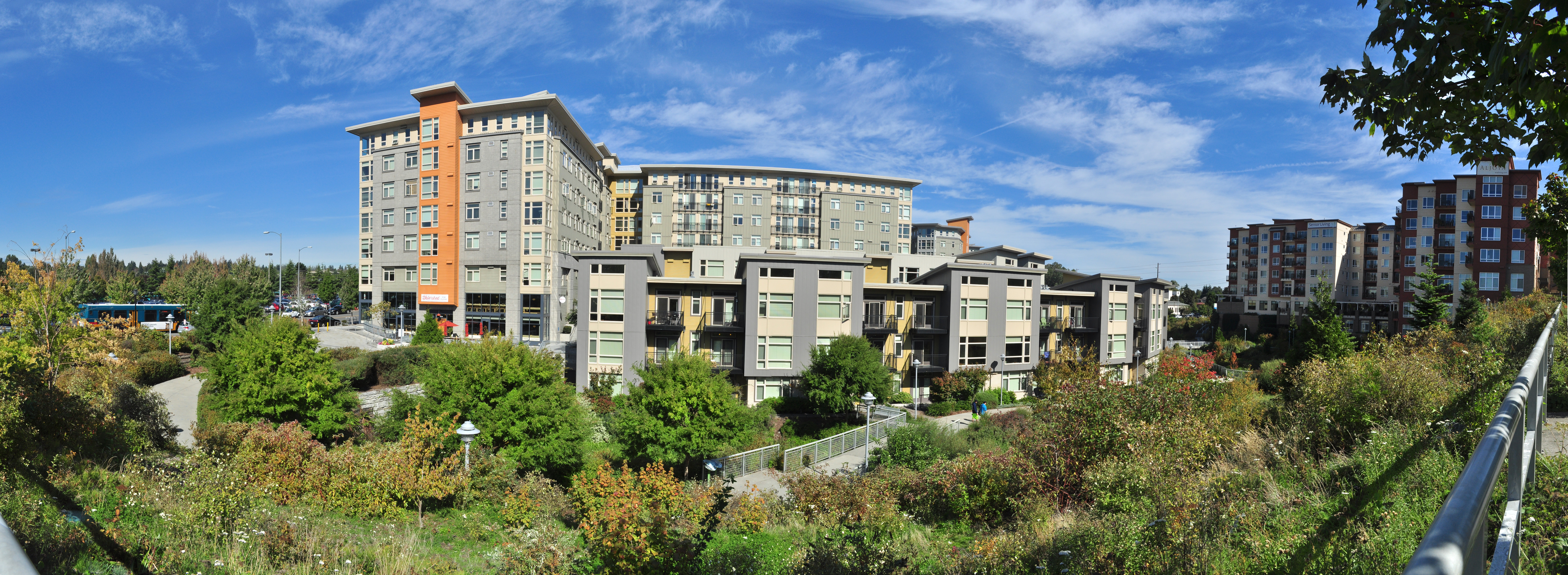 Panoramic view of the residential part of Thornton Place in the Northgate neighborhood of Seattle, Washington, U.S. This is roughly a 180° panorama. This image was created with Hugin